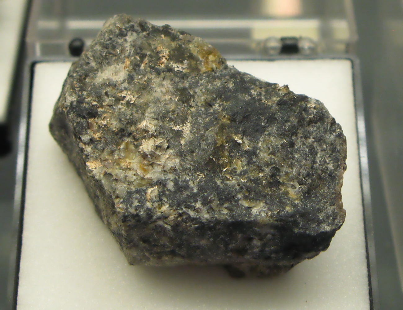 Chlorargyrite with native Silver - Daniel mine, Schneeberg, Erzgebirge (Germany)